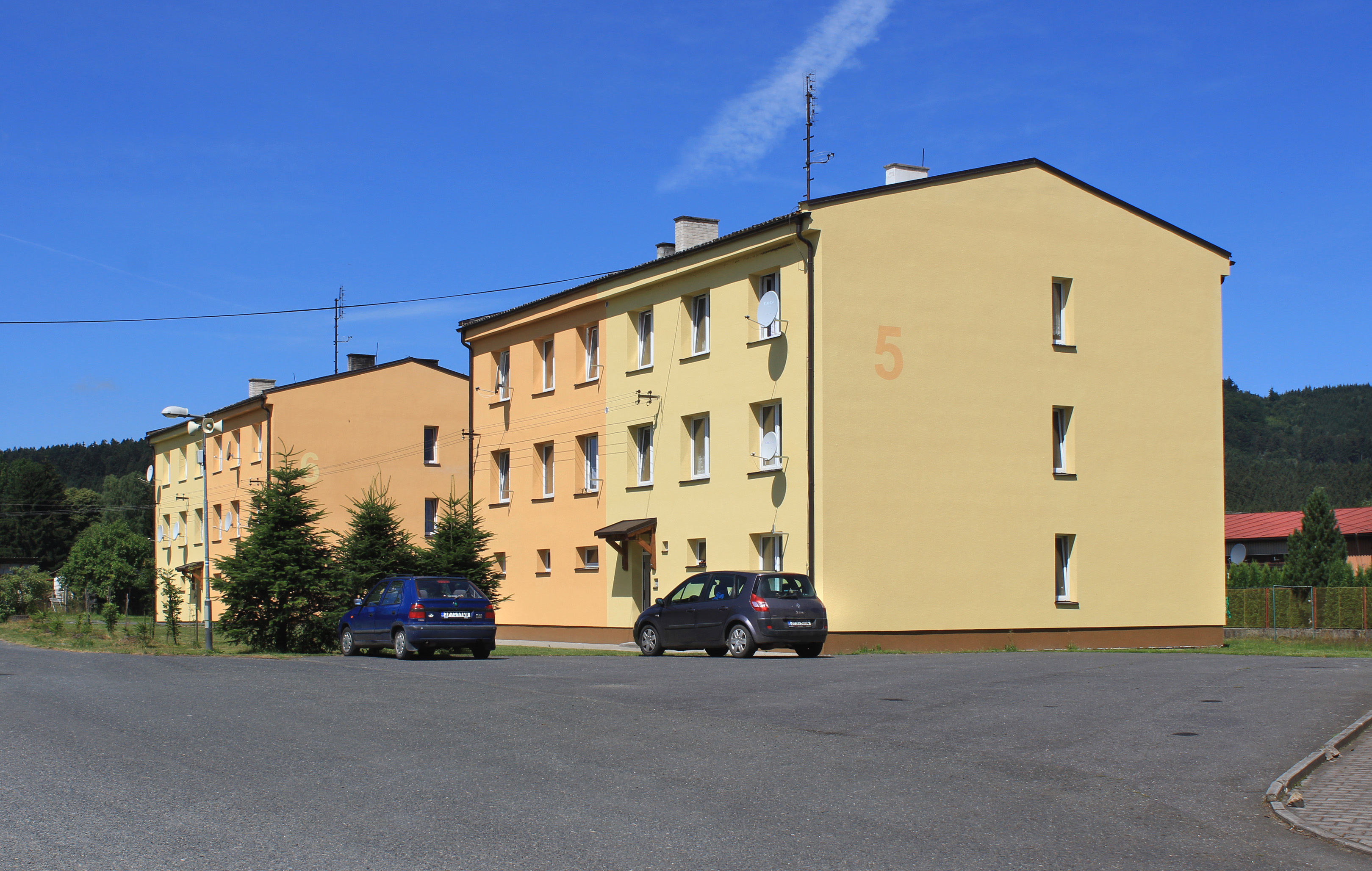 Tenement houses in Rybník, Czech Republic.